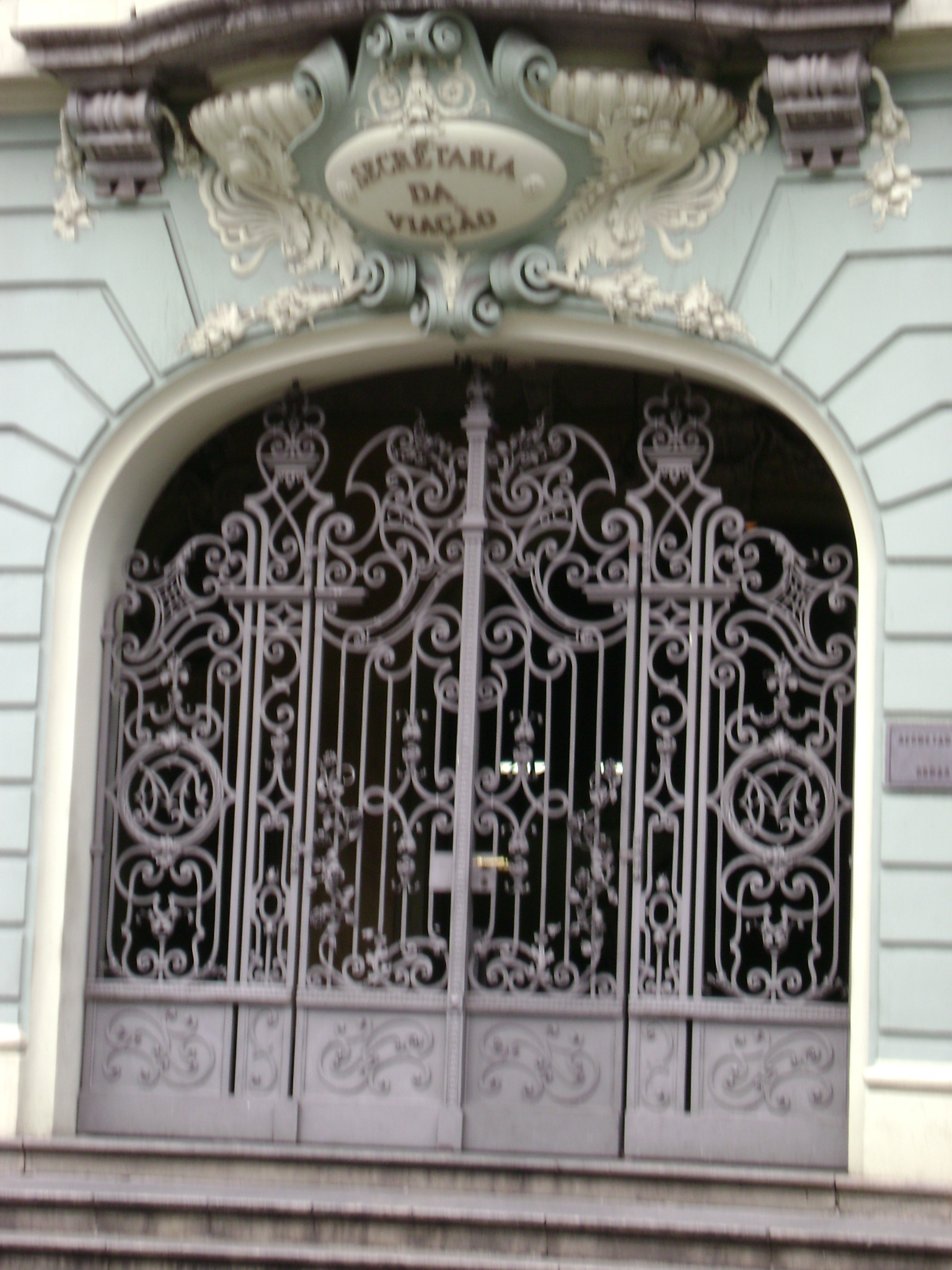 Secretaria da Viação na Praça da Liberdade, Belo Horizonte, Brasil.